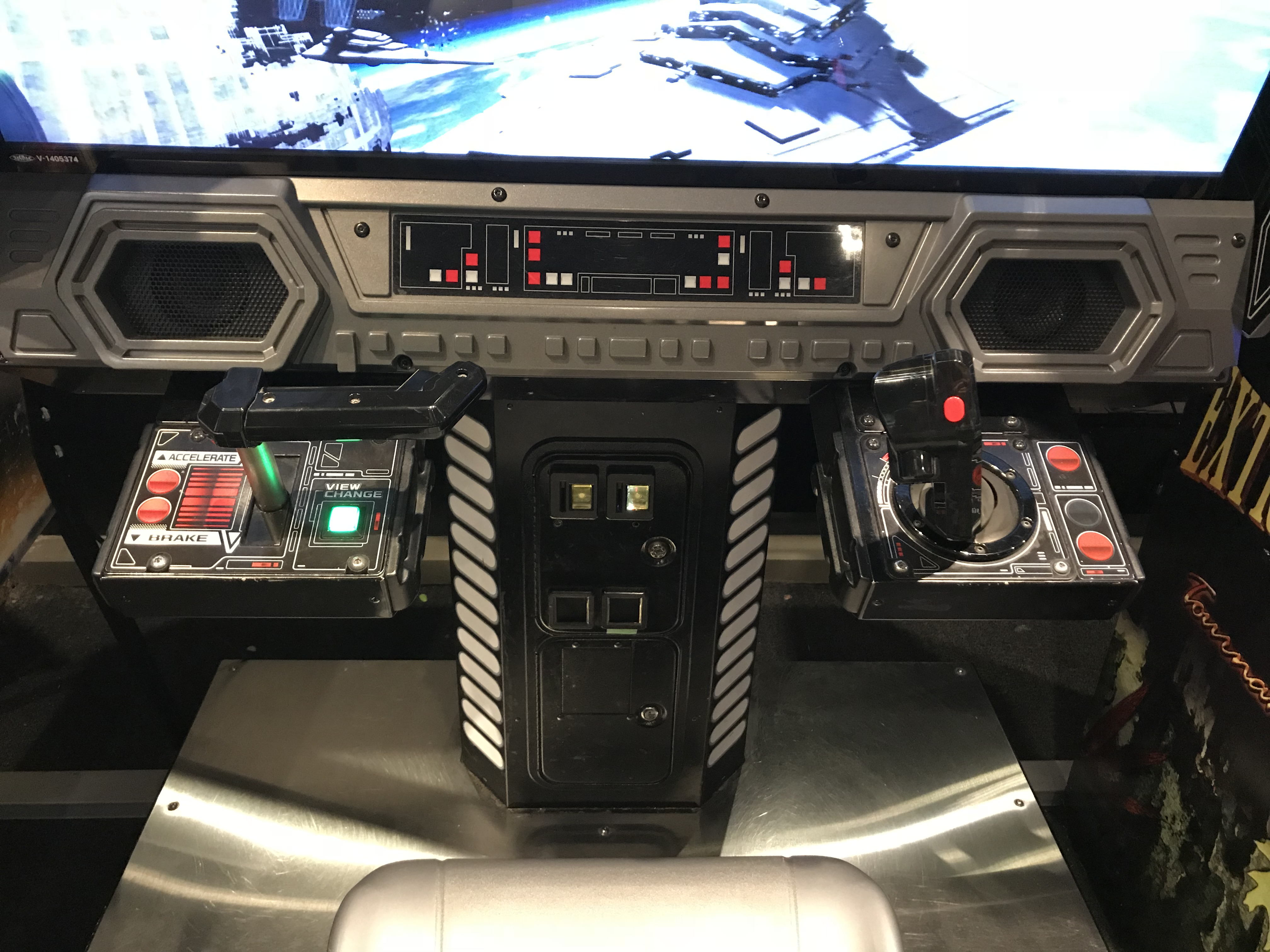 Star Wars: Battle Pods arcade game located in the arcade of the SilverCity Yonge-Eglinton Cinemas, Toronto, Ontario, Canada.